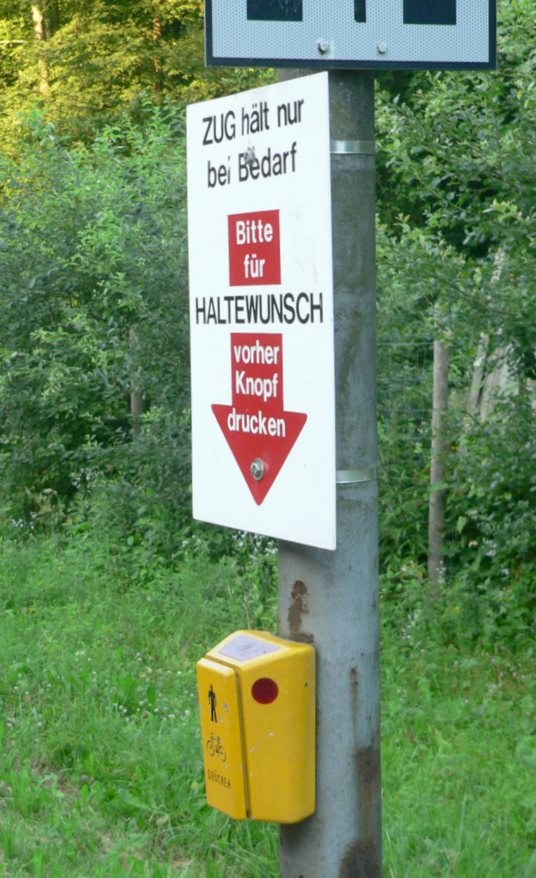 Indicator for request stop of the station Bad Herrenalb-Kullenmühle, Germany